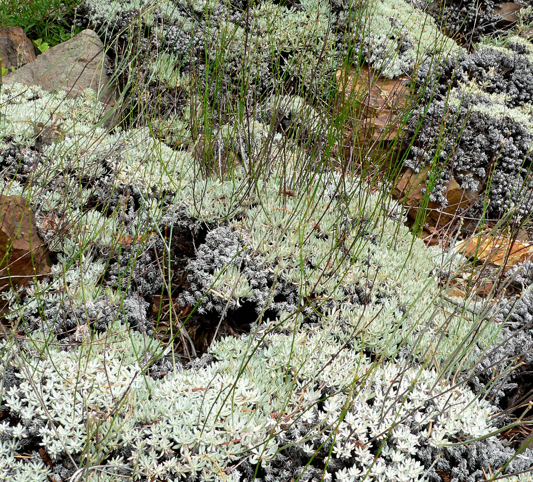 Photo of Eriogonum wrightii var. subscaposum at the Regional Parks Botanic Garden